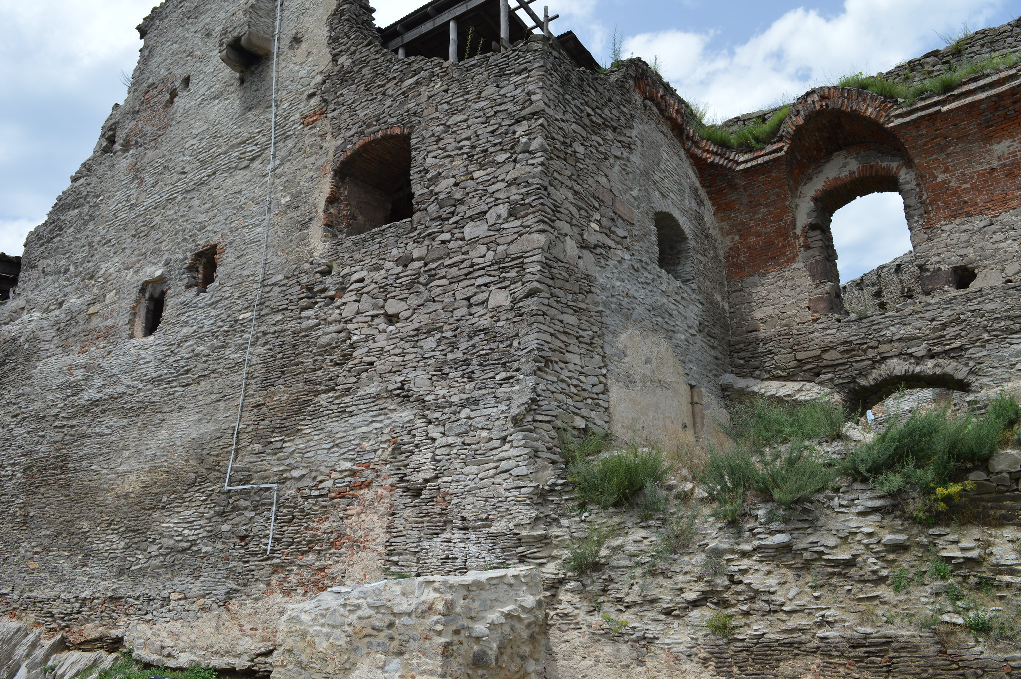 The fortress of Deva, Romania